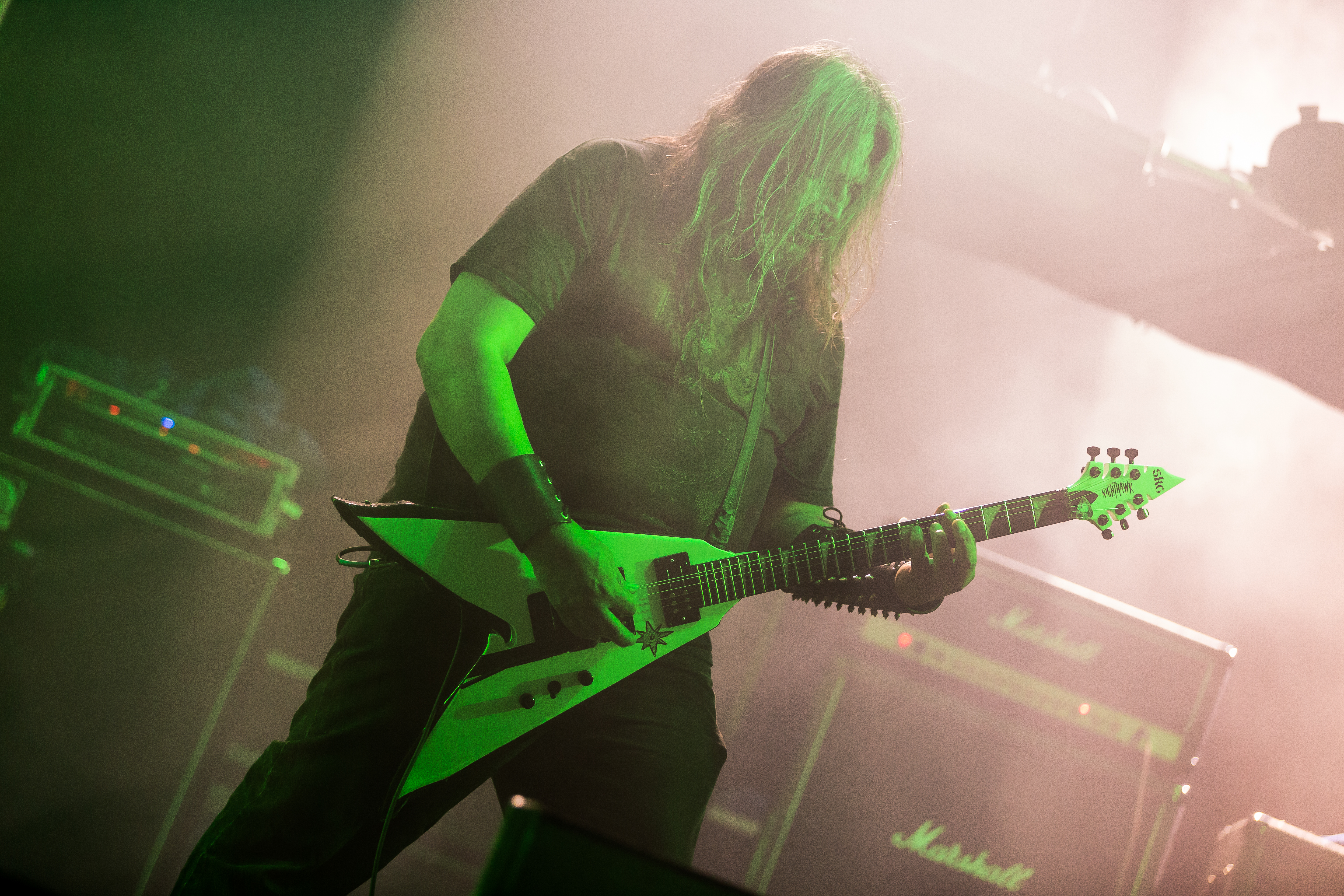 The American death metal band Autopsy at the Party.San Metal Open Air 2017 in Obermehler-Schlotheim/Germany.